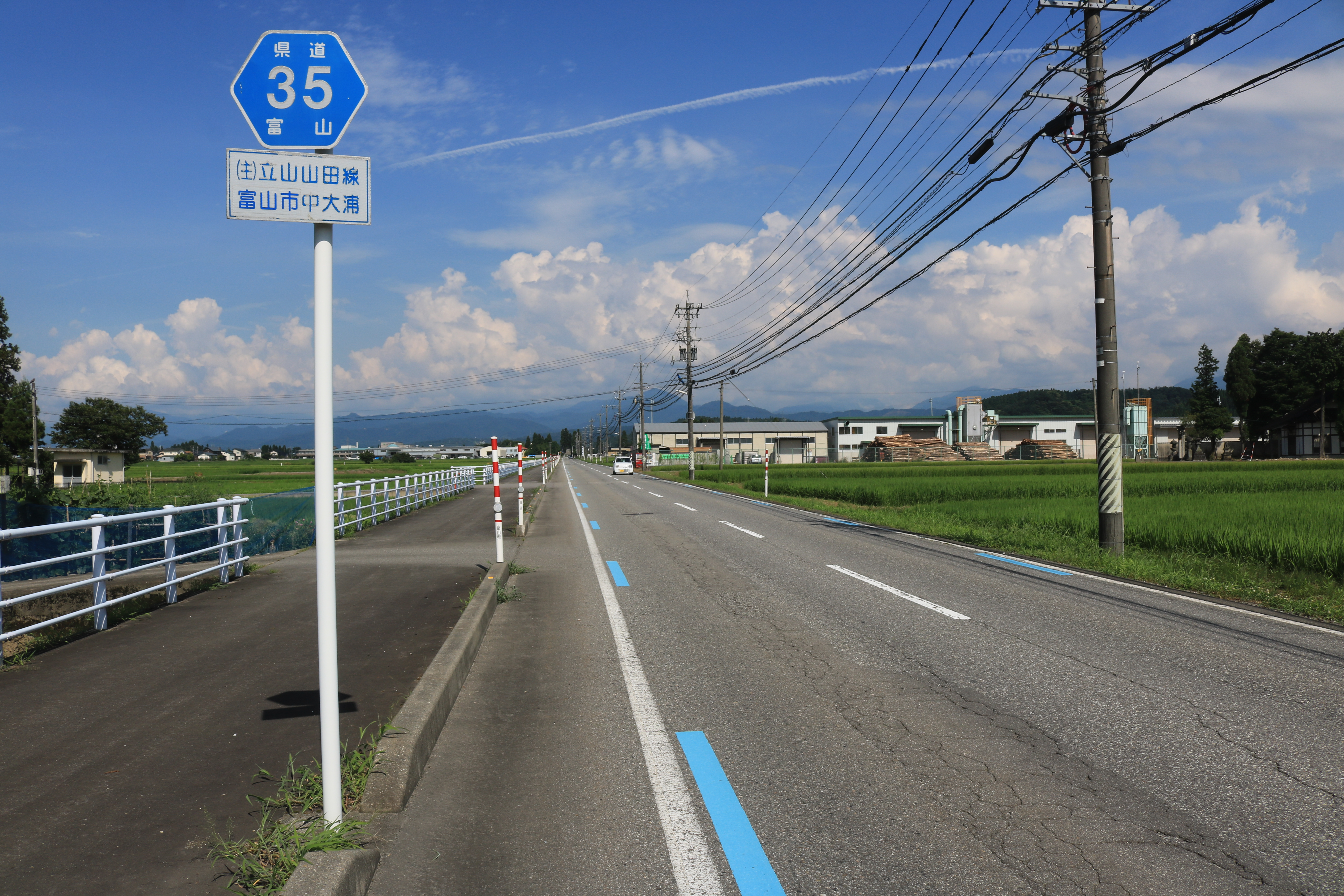 Toyama Prefectural Road Route 35 in Nakaoura, Toyama city, Toyama prefecture, Japan.